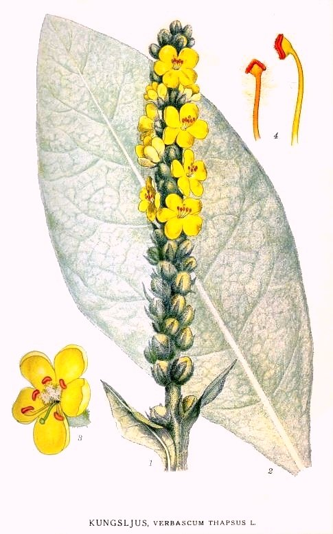 Verbascum thapsus L. Original Description Kungsljus, Verbascum thapsus L.